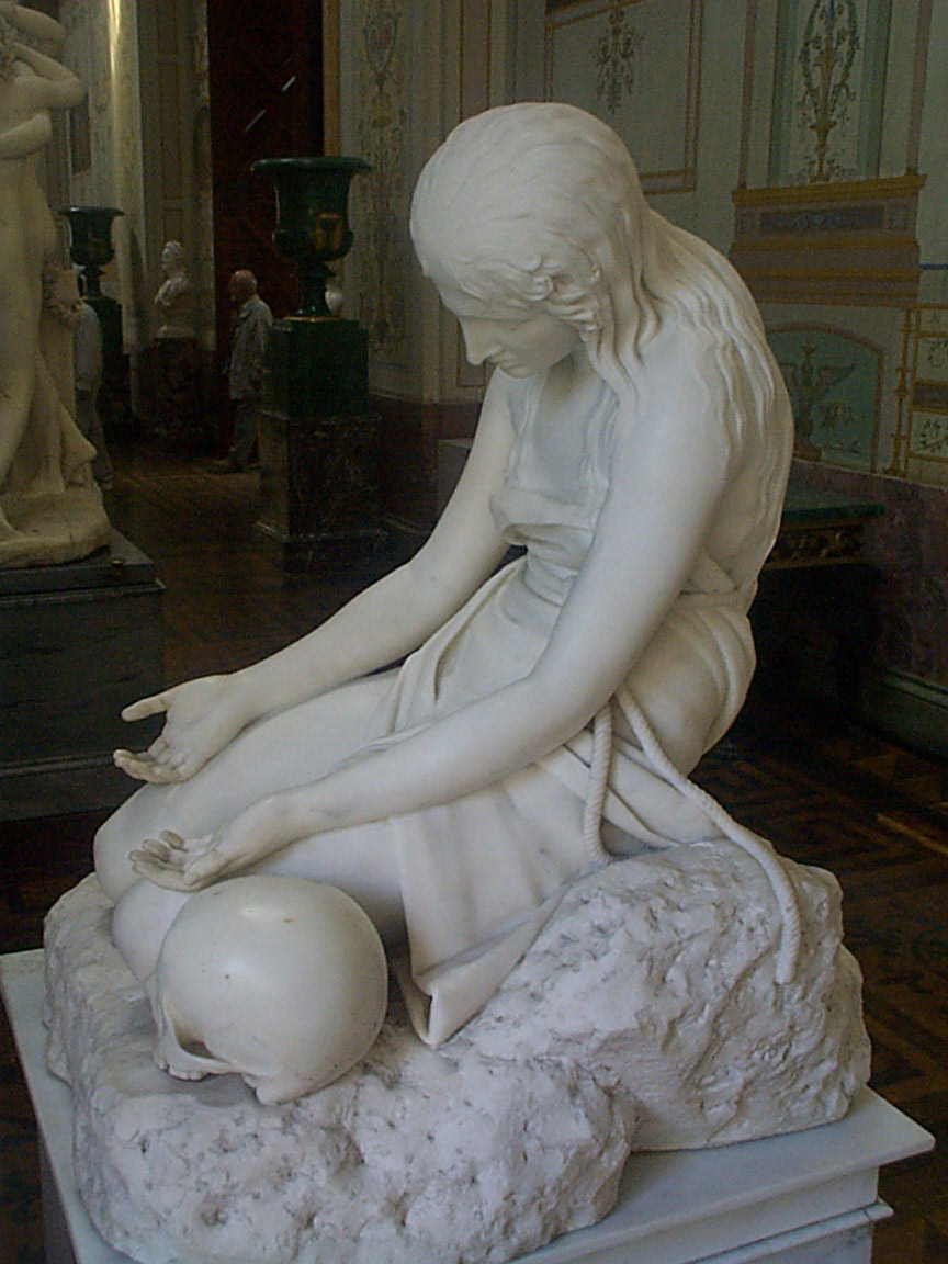 Antonio Canova, Maddalena penitente (english: "The Repentant Mary Magdalene"). Location: Hermitage, St. Petersburg.